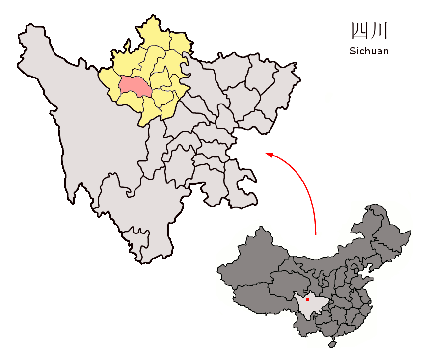 Location of Barkam County (pink) and Ngawa Prefecture (yellow) within Sichuan province of China Map drawn in september 2007 using various sources, mainly : Sichuan province administrative regions GIS data: 1:1M, County level, 1990 Sichuan Counties map from